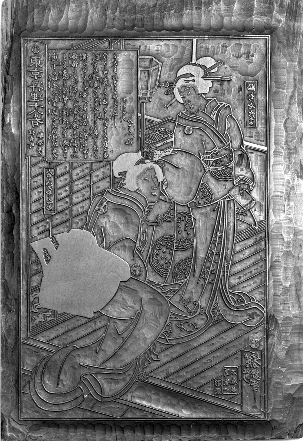 Original key block for ukiyo-e print by designed by Yoshiiku and signed by carver Asai Ginjirō